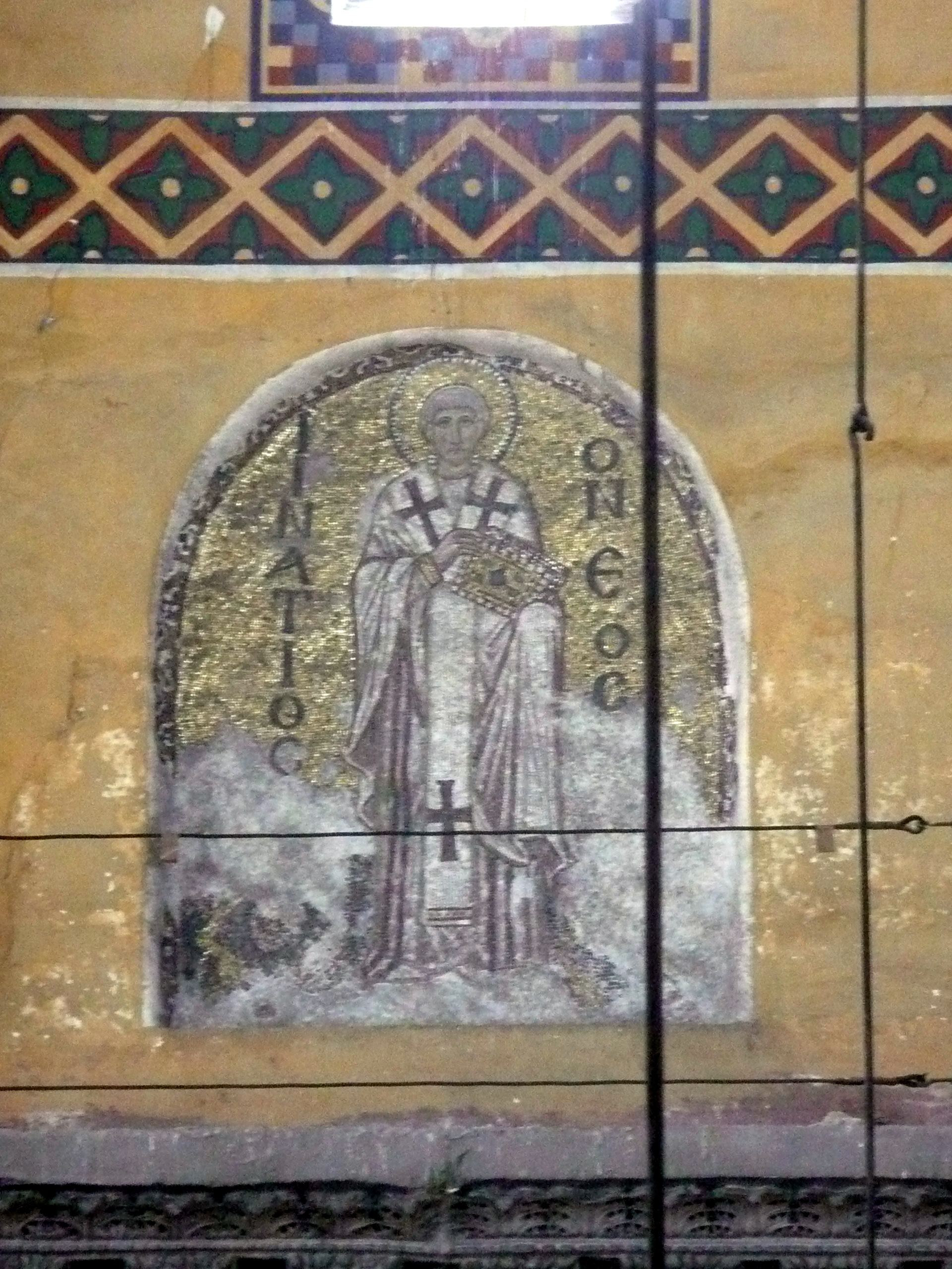 Mosaic in the northern tympanon of the Hagia Sophia, depicting Saint Ignatius the Younger